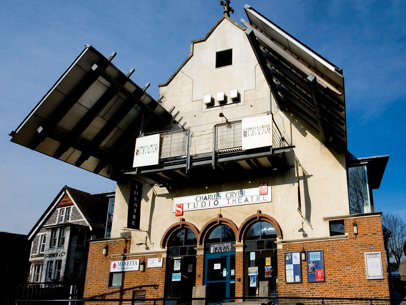 The Charles Cryer Studio Theatre, Carshalton. This was originally built in the 1870's as a public hall. The building has also been used as a roller-skating rink and a cinema. It became the present theatre in 1991. The building also incorporates a good Thai restaurant (Maneeya) at ground level, which is entered from the side of the building and hence not fully in view.